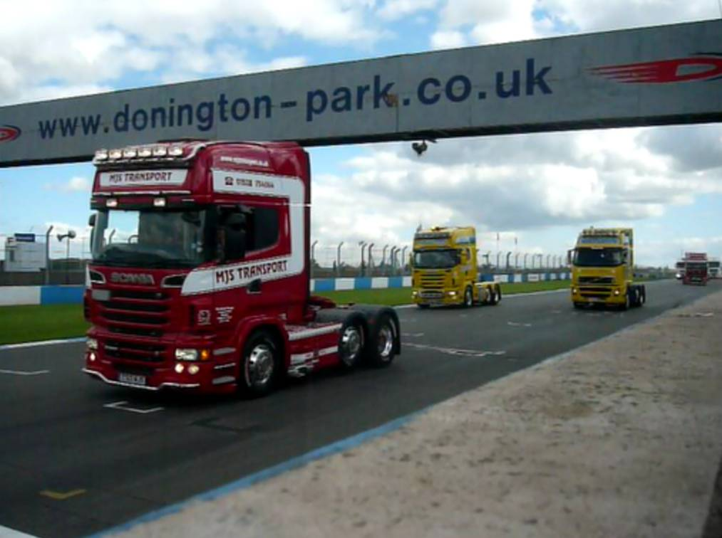 Show Trucks on parade down the main straight at Donington Park, 2013